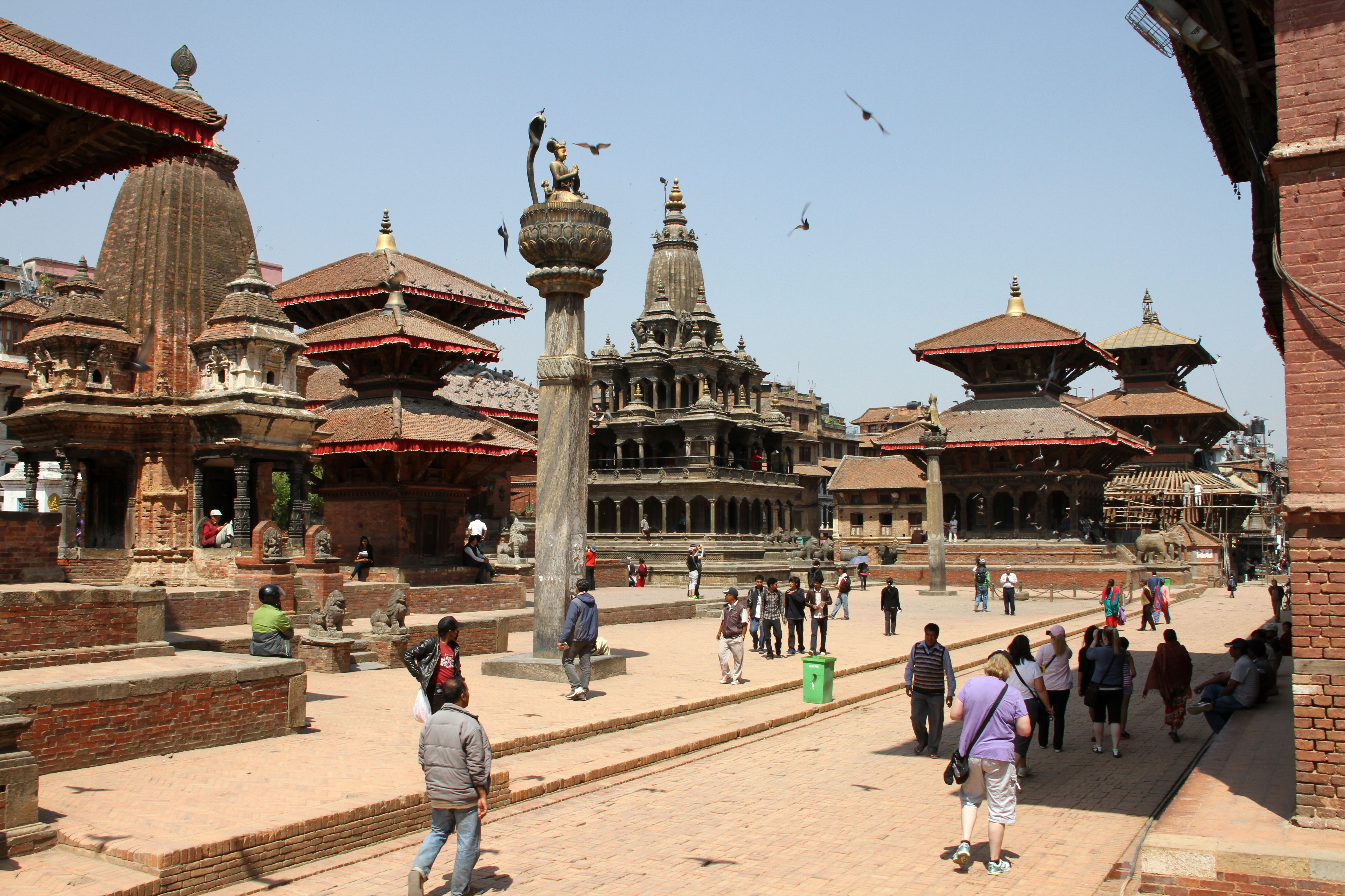 View of Patan Durbar Square